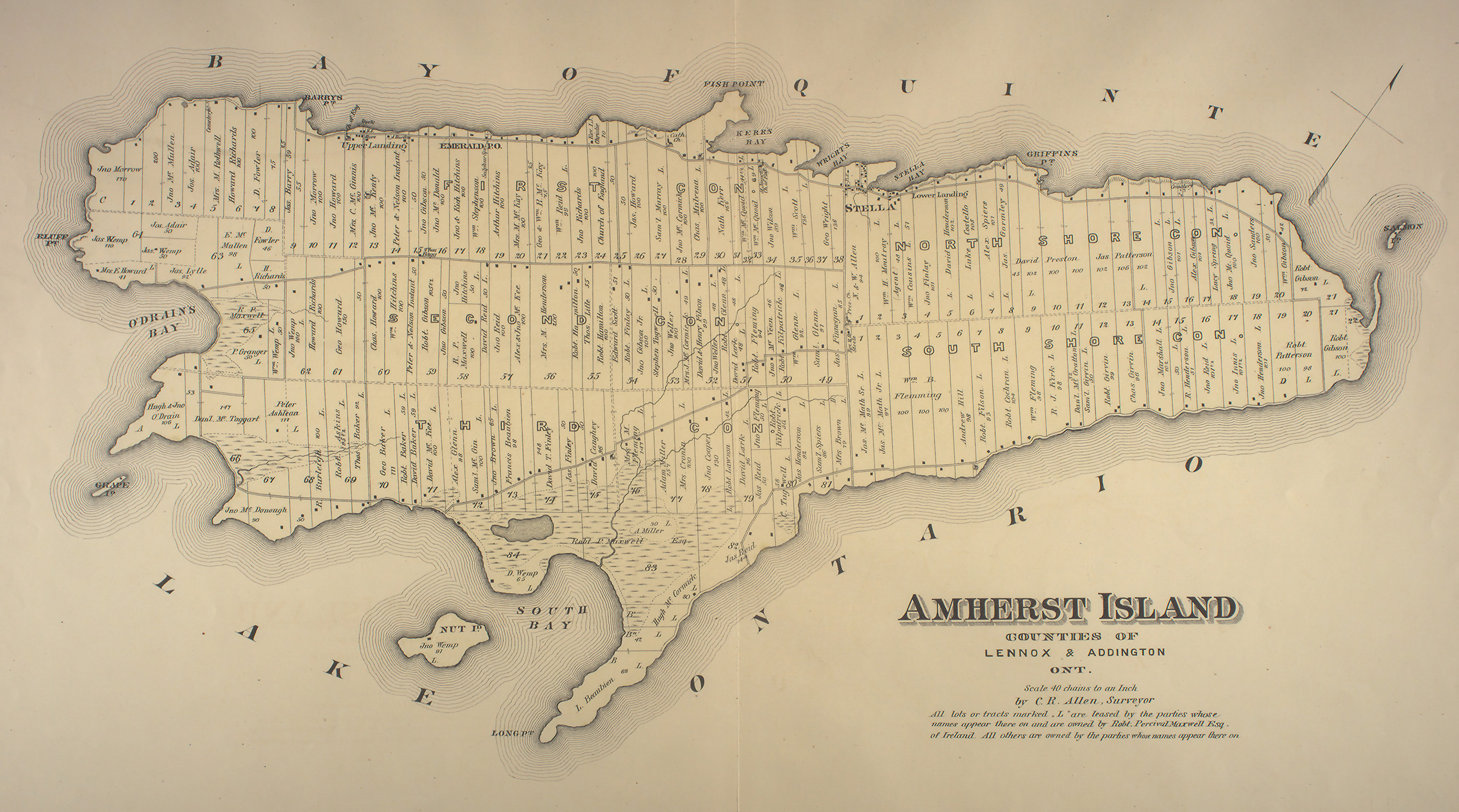 1878 map of Amherst Island, Ontario, Canada, from "Frontenac, Lennox and Addington Counties." Illustrated historical atlas of the counties of Frontenac, Lennox and Addington, Ontario. Toronto : J.H. Meacham & Co., 1878.